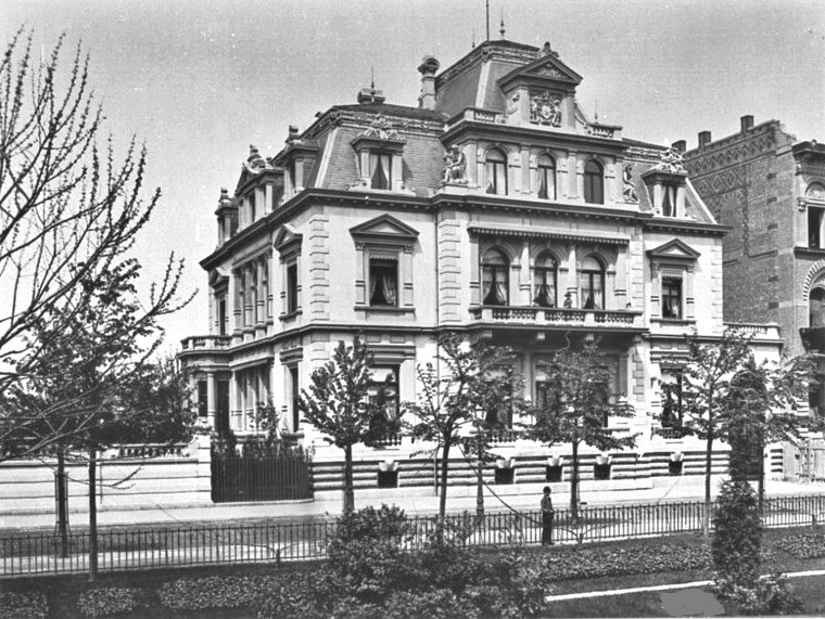 Kaiser-Wilhelm-Ring 23 / Ecke Goebenstraße - Haus Raoul Stein (später Gothaer Versicherungsbank), um 1900